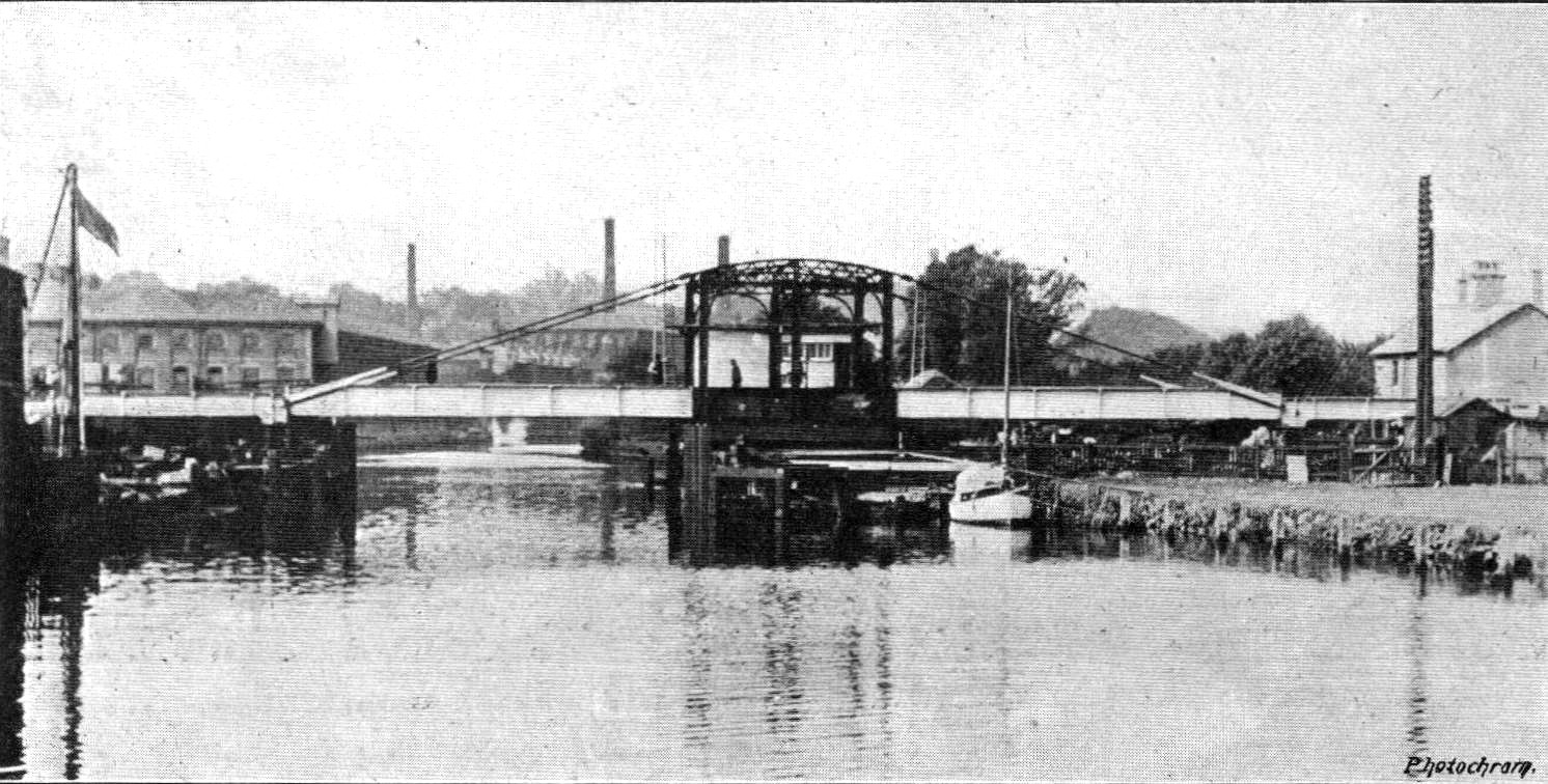 Trowse swing bridge (Railway Magazine, 100, October 1905).jpg